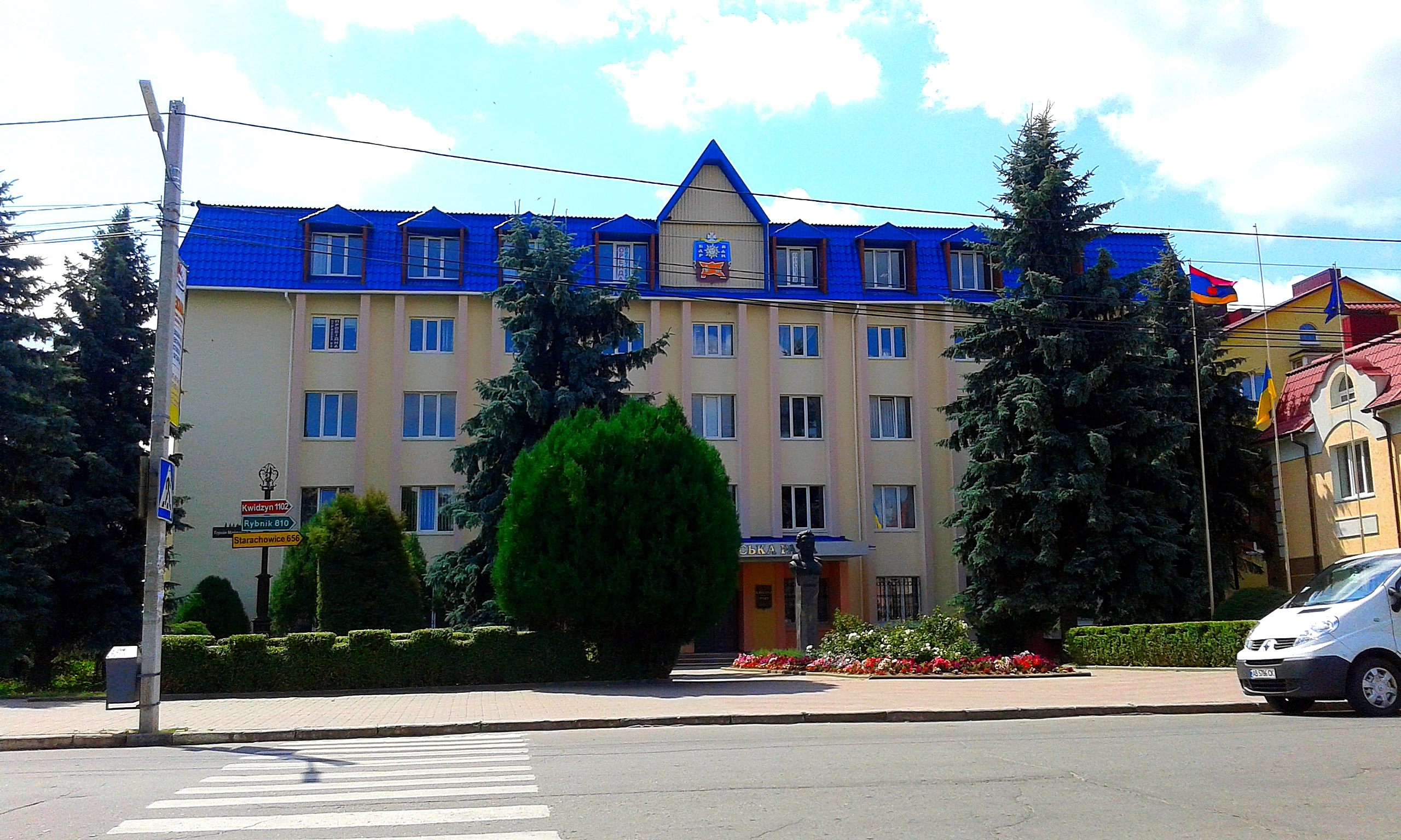 BAR CITY COUNCIL BUILDING IN CITY OF BAR REGION OF VINNYTSIA STATE OF UKRAINE 20170723